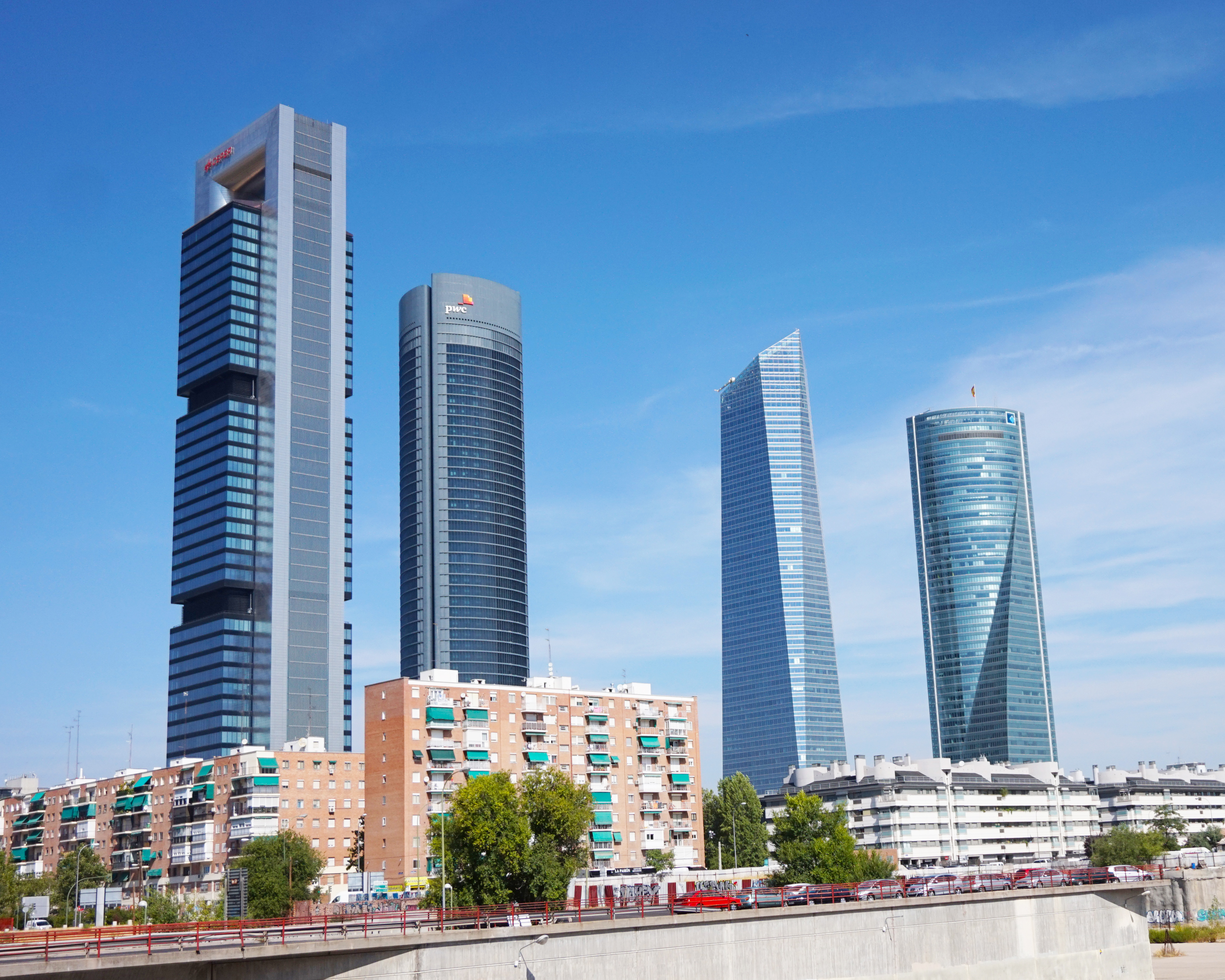 Cuatro Torres Business Area in Madrid, Spain.This photograph was taken with a Sony ILCE-5000